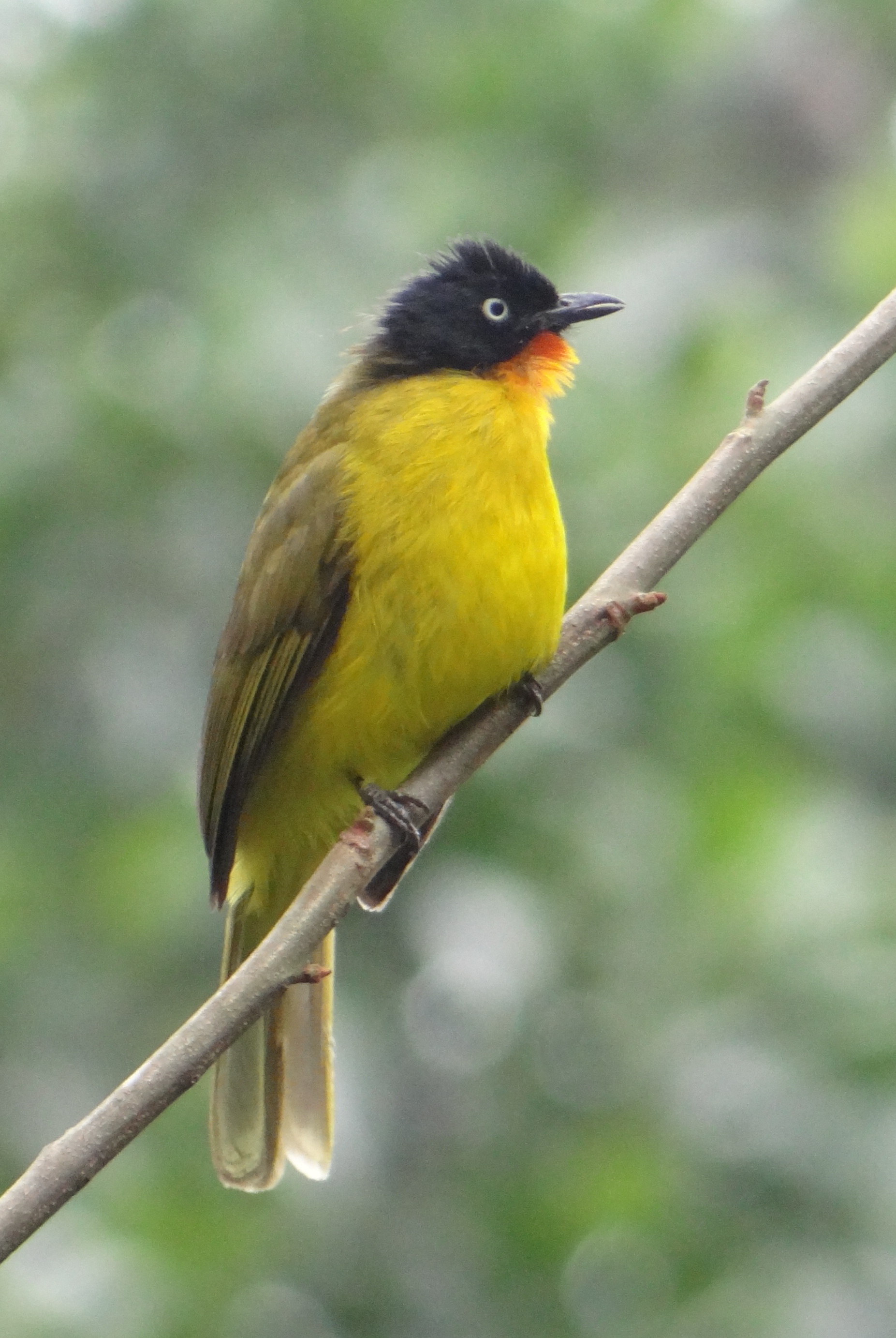 Flame-throated Bulbul Pycnonotus gularis, Kodagu (Coorg), Karnataka, India